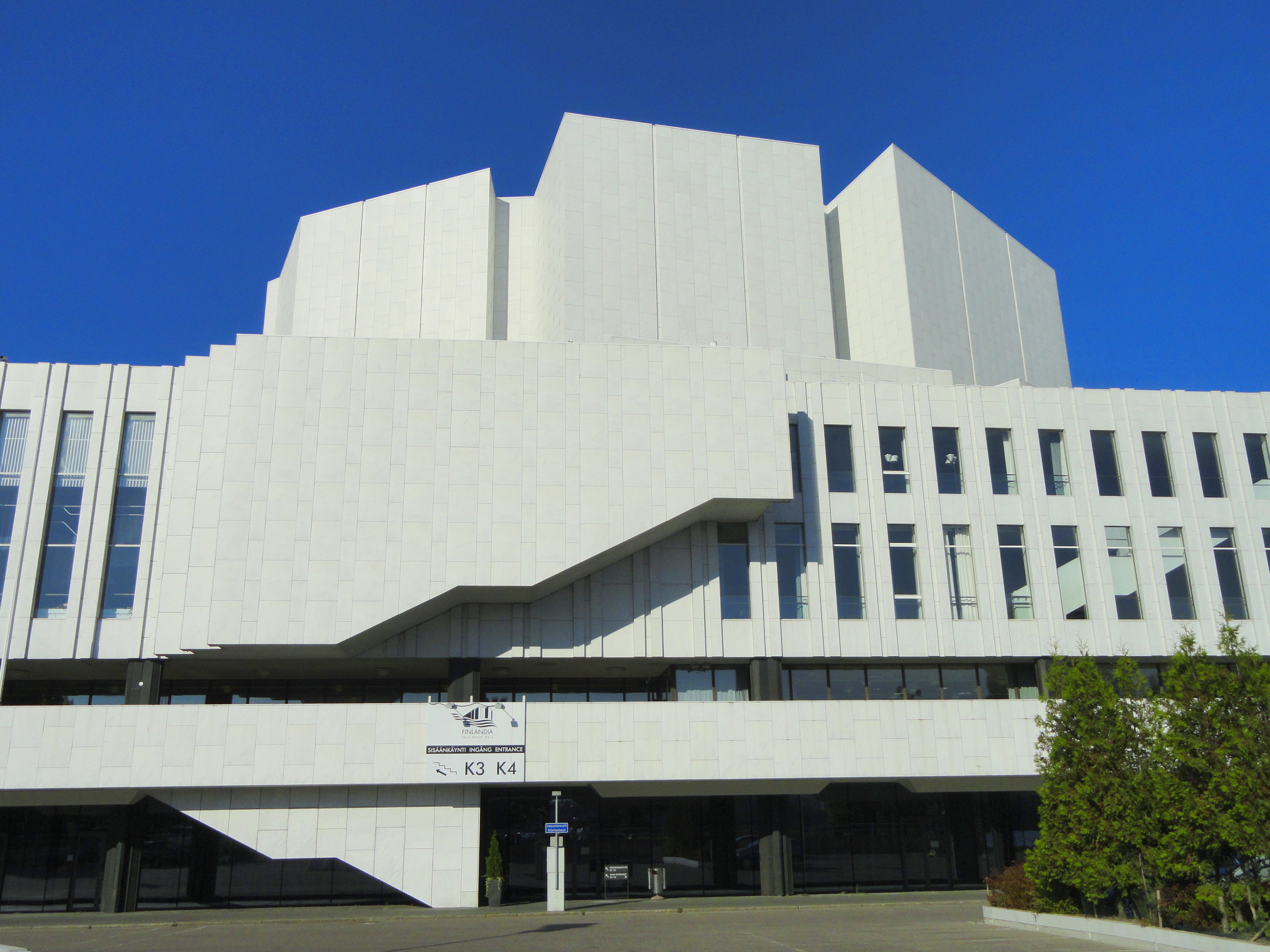 Finlandia Hall, Helsinki, Finland.